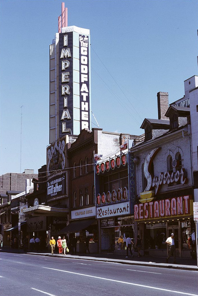 The Imperial Theatre in Toronto, Ontario, Canada. In this image, "The Godfather" is shown on the marquee as playing in the cinema. Originally the Pantages movie palace, designed by architect Thomas Lamb, the cinema was renamed the Imperial in 1930. After the 1972 showing of the Godfather, the building was converted to a multiplex called the "Imperial 6". After years of rancour between the Famous Players and Cineplex chains in the 1980s, each of which owned or leased a portion of the building, Cineplex restored the theatre to its 1920s grandeur, and it reopened in 1989 for live theatre productions (once again called the Pantages). In 2001, it was renamed the Canon Theatre, and later renamed the Ed Mirvish Theatre in 2011.